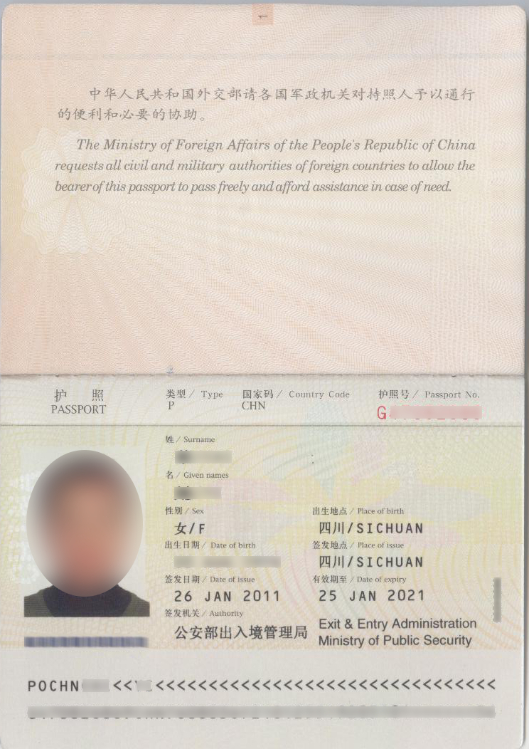 Informatin Page of PRC Ordinary Passport (97-2 Version)